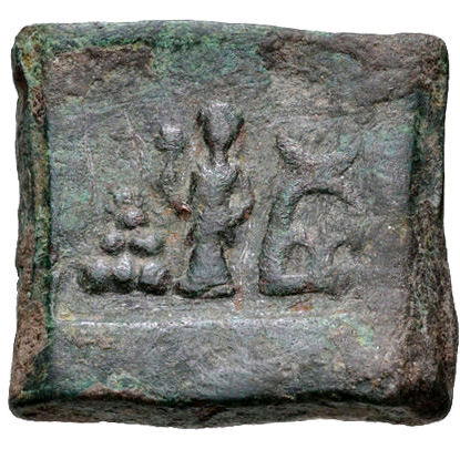 Taxila single dye coin with Lakshmi Circa 185-160 BC. Detail of